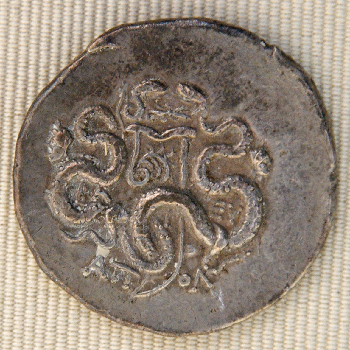 Cistophorus minted in Apollonis (Lydia) under the reign of Aristonicos of Pergamon (133–130 BC). Reverse: snakes entwined around a bow case, with thunderbolt, Zeus' head and Dionysos' in the field.